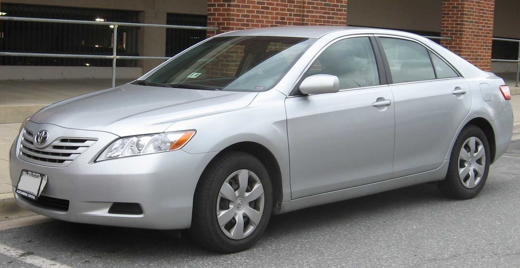 2007-2009 Toyota Camry photographed in College Park, Maryland, USA.